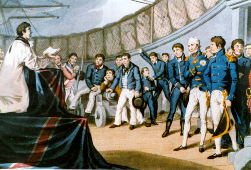 Sailors at Prayer on board Lord Nelson's ship after the Battle of the Nile